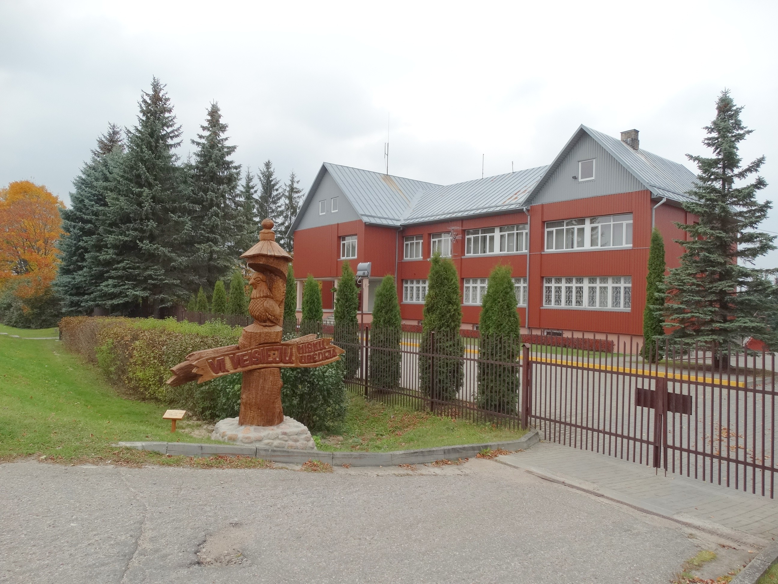 Forest enterprise, Veisiejai, Lazdijai District, Lithuania